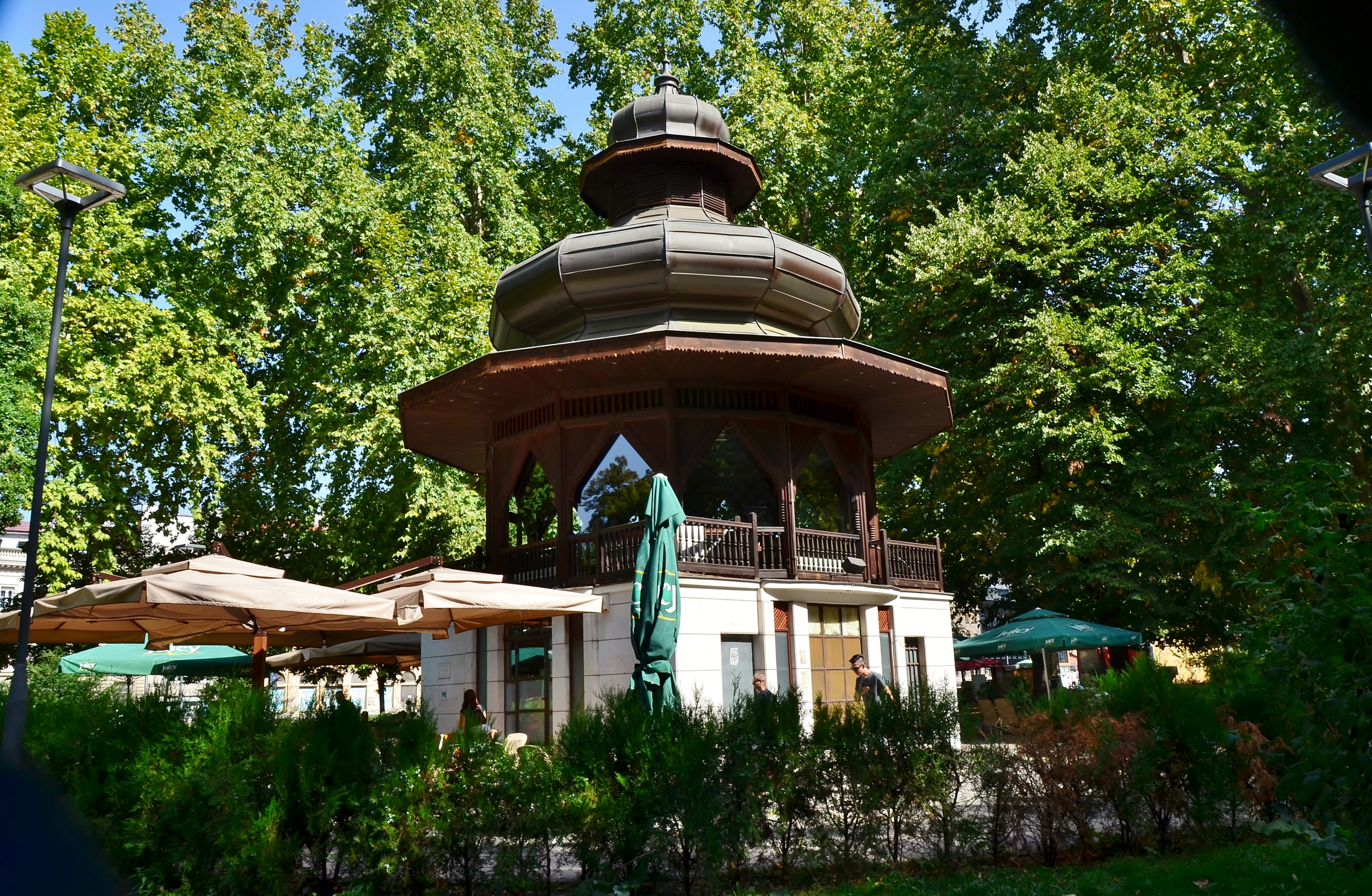 Cafe Music pavilion at Admejdan, Sarajevo, Bosnia and Herzegovina